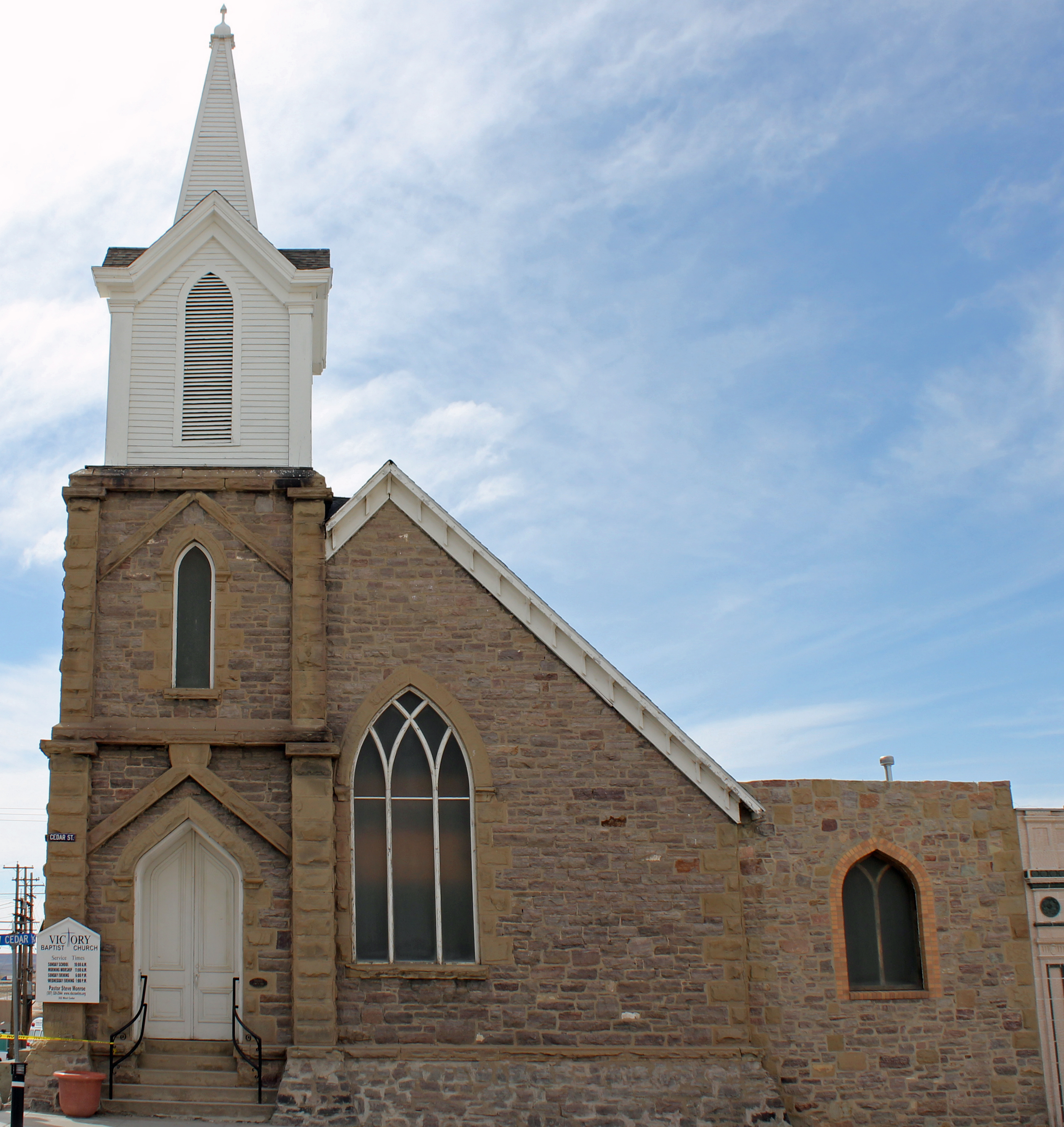 The France Memorial United Presbyterian Church, located at 3rd and Cedar streets in Rawlins, Wyoming. The property is listed on the National Register of Historic Places.